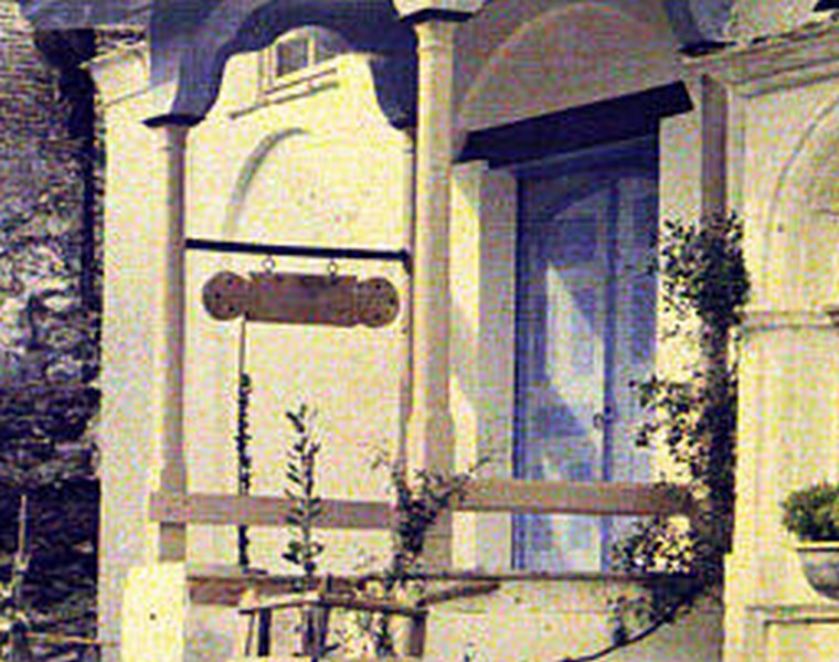 Simandre (image coupée) : Autochrome du Mont Athos